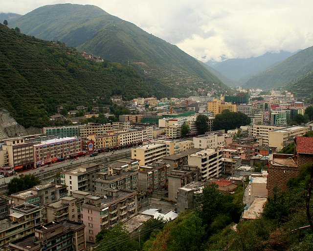 October golden week trip in north Sichuan (beginning of the Tibetan Plateau) 1st stop: Zhoukeji near Maerkang. We had a quick glance of Maerkang before taking the 12:30 bus for Hongyuan...